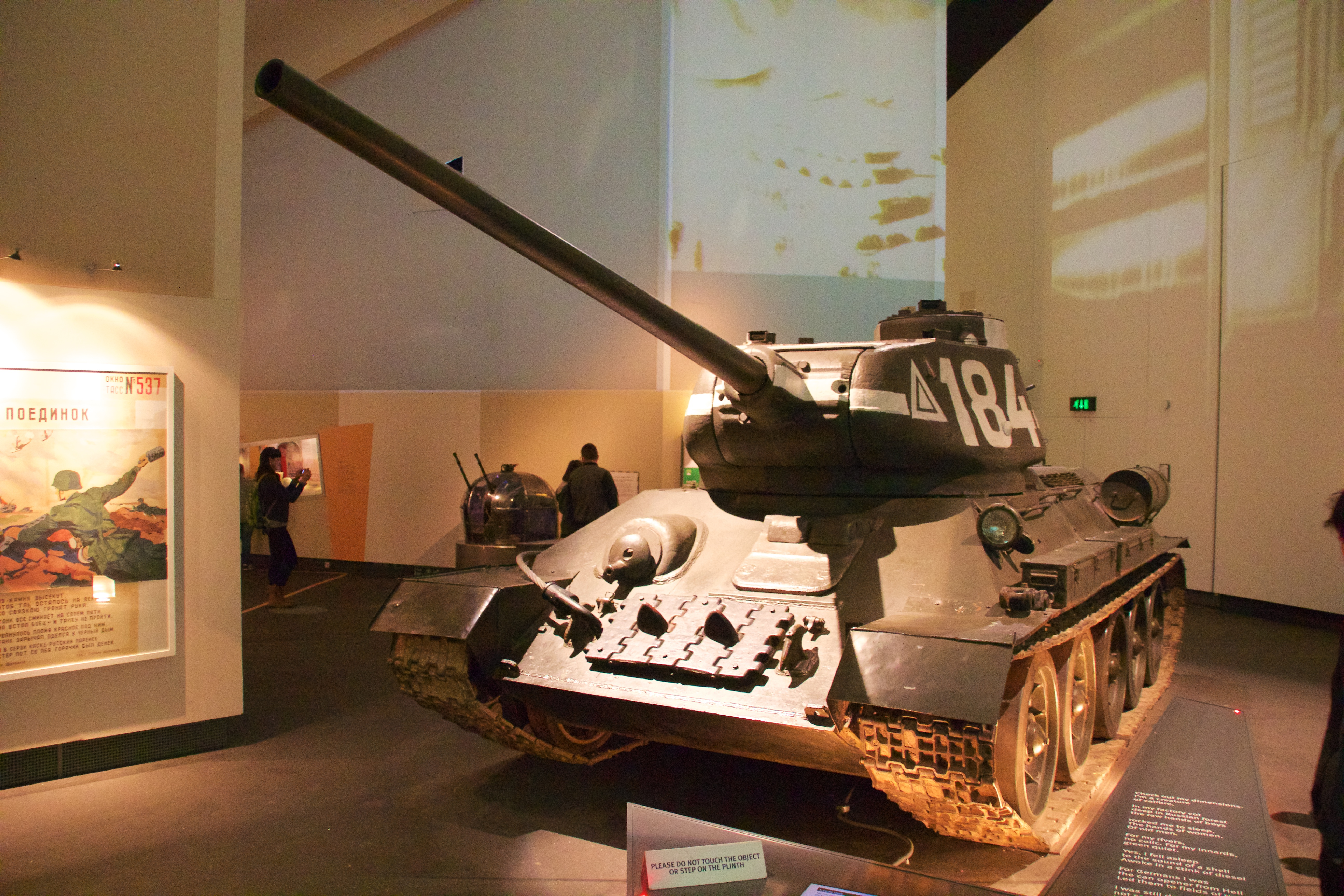 T-34 tank. At the Imperial War Museum North.